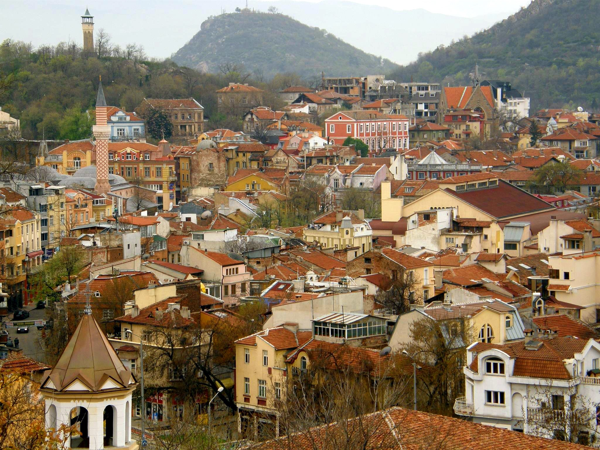 The city of Plovdiv (Philippopolis) - mainly the old part of the city - seen from the hill where is the ancient Thracian settlement of "Nebet Tepe". Eumolpias, Philippopolis, Pulpudeva, Trimontium or Пловдив (Plovdiv)